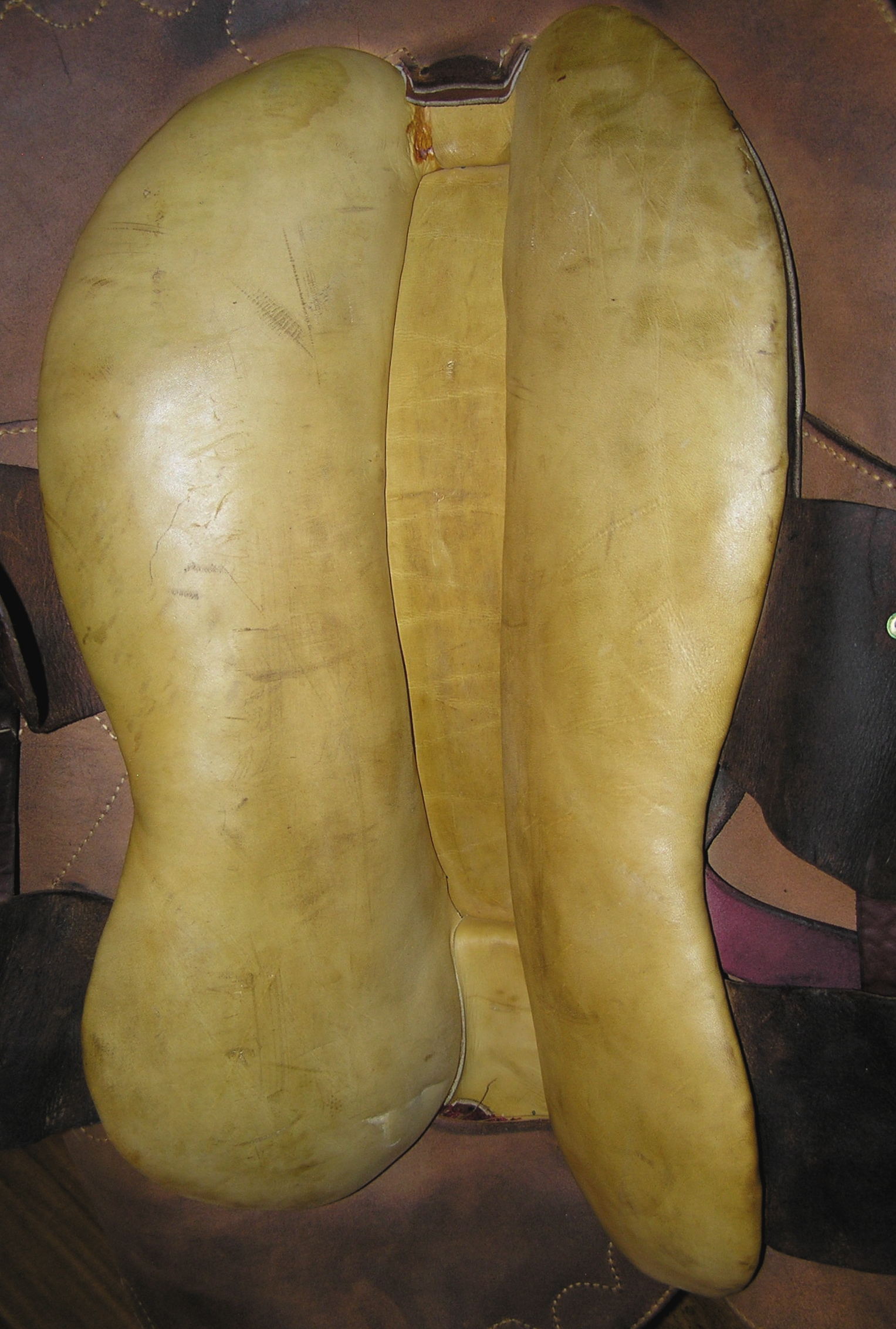 The underside of a refurbished vintage sidesaddle, showing leather panels.